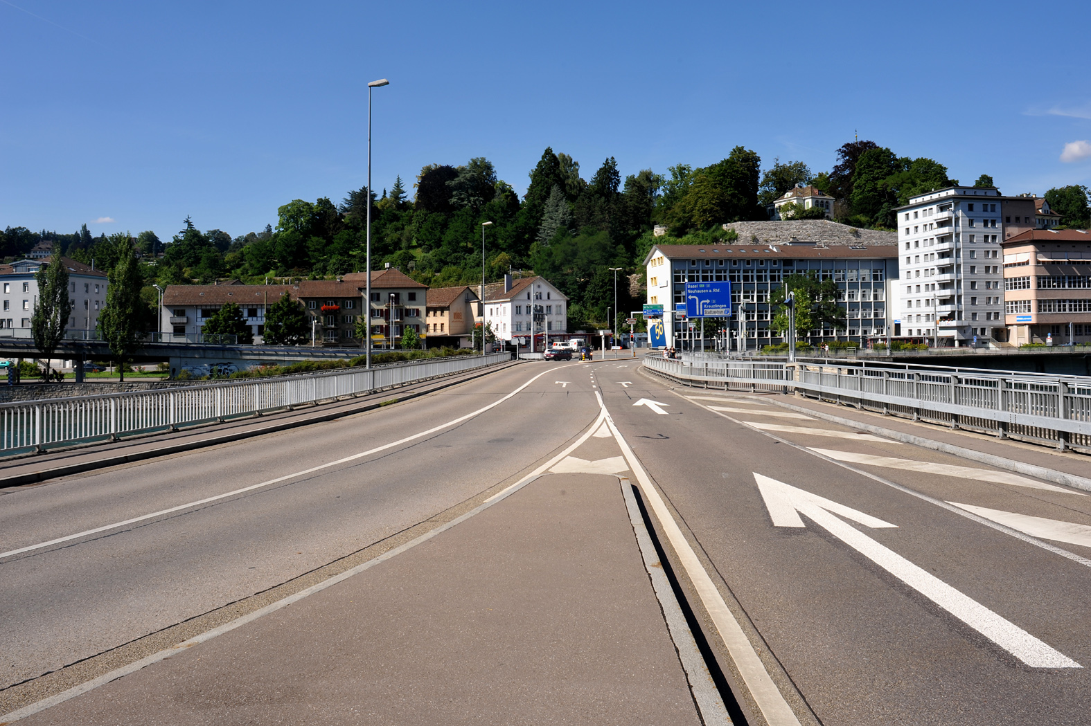 Road bridge between Schaffhausen and Flurlingen; Schaffhausen, Switzerland.